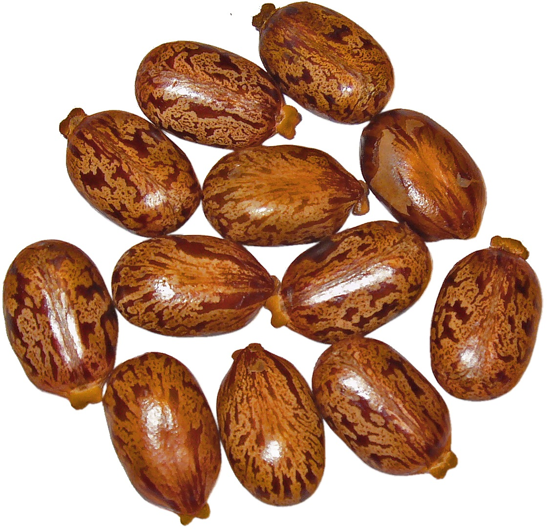 Ricinus communis, Euphorbiaceae, Castor Oil Plant, seeds.